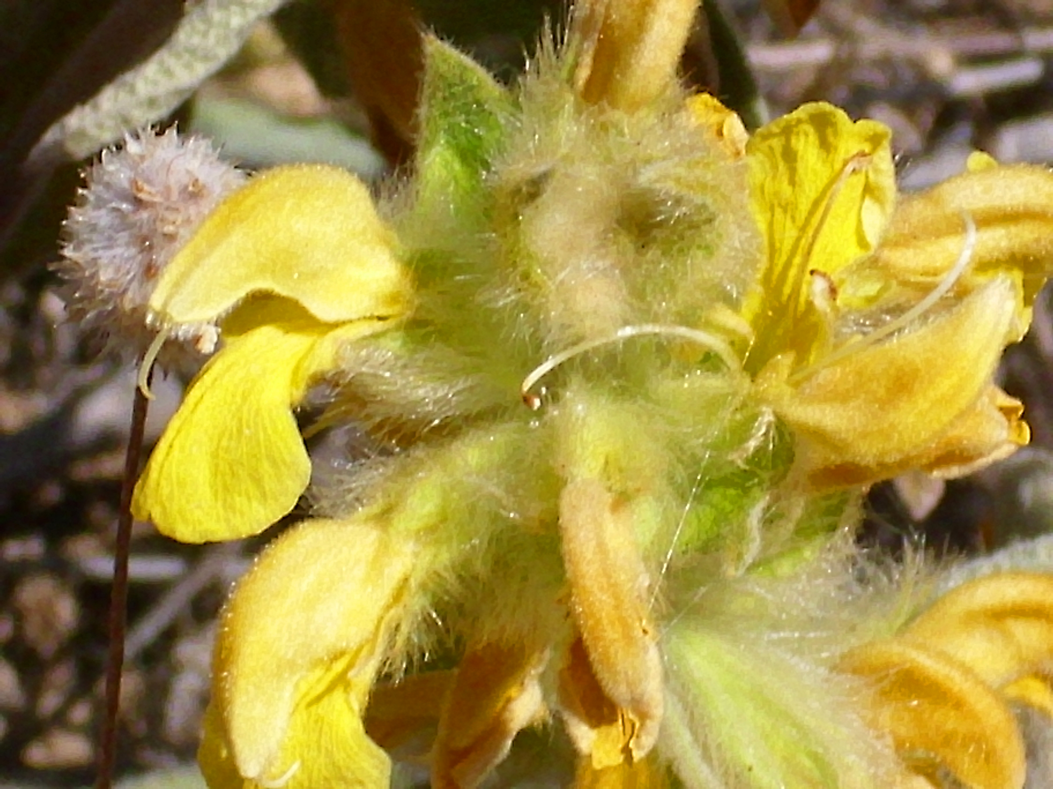 Phlomis crinita habit, Valle de Alcudia, Spain